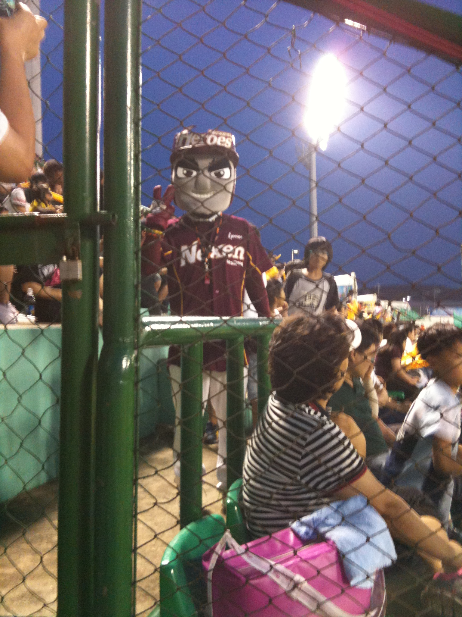 Nexen Heroes Character Tukdori(Hero) at Goonsan Baseball Park, 2011-07-05